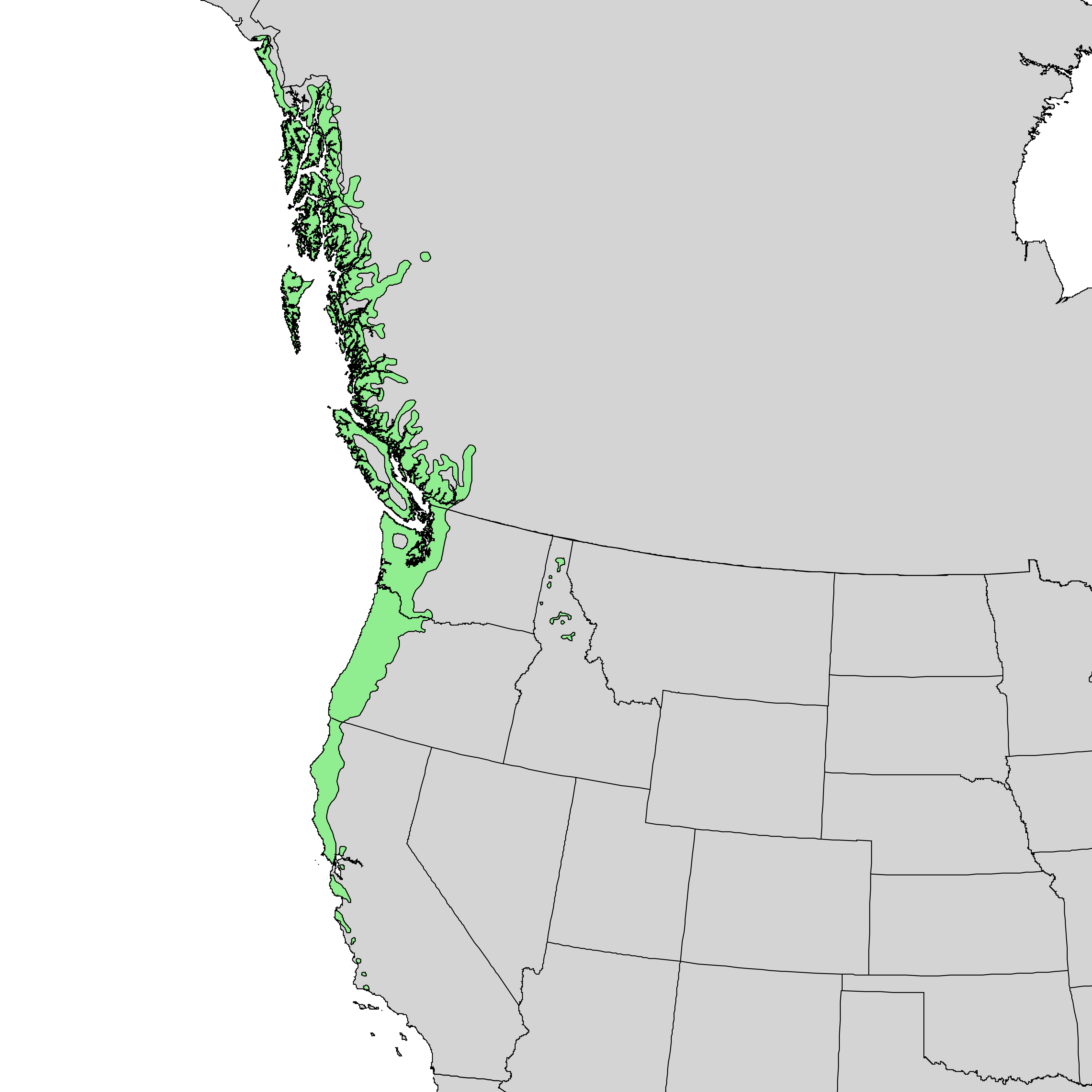 Natural distribution map for Alnus rubra